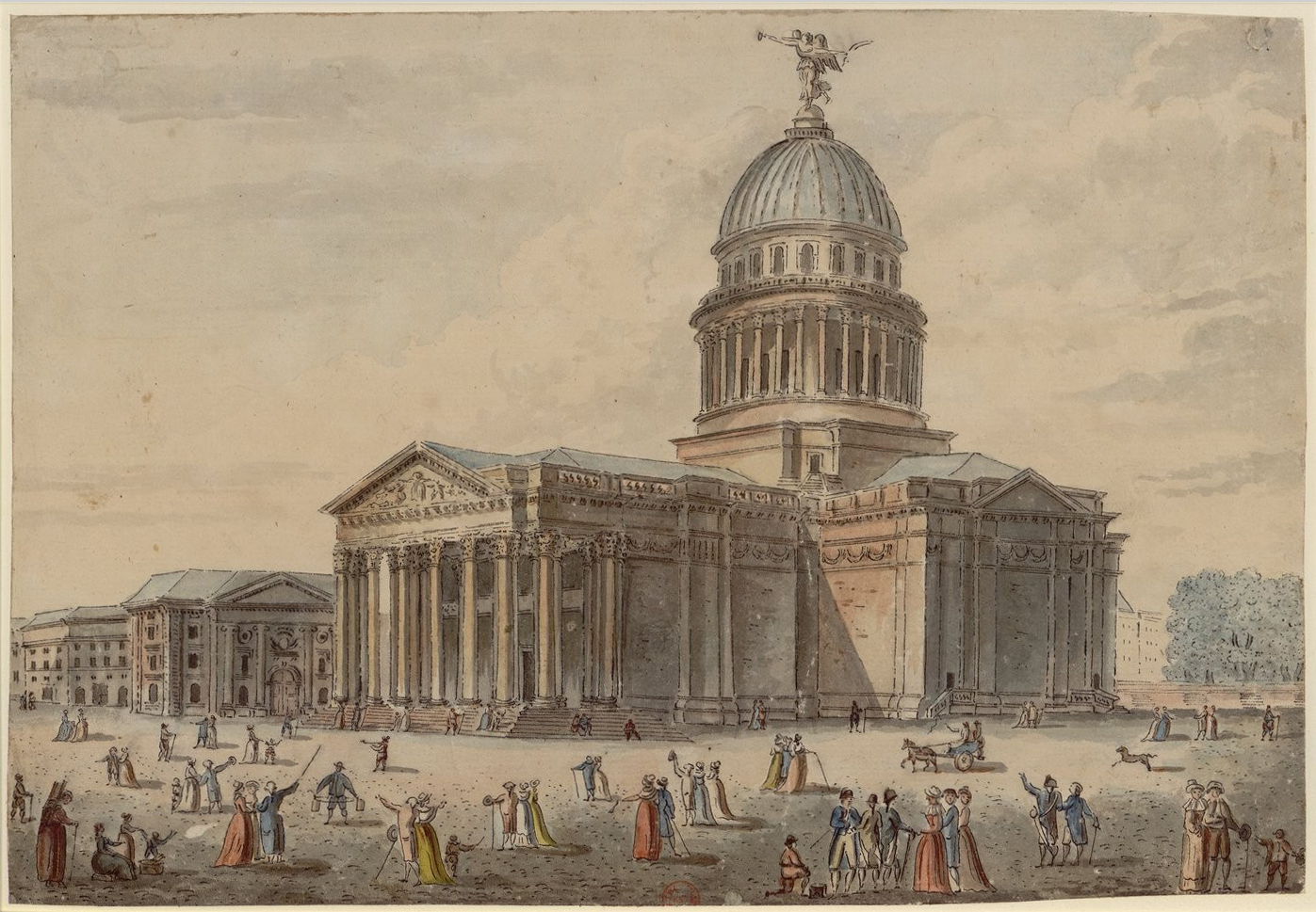 Drawing of Panthéon by Pierre-Antoine de Machy